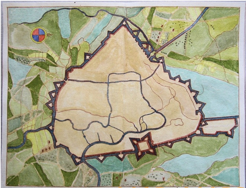 Ghent by Pieter Schenck in 1712